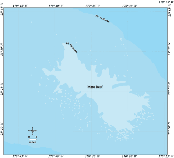 Bathymetric map of Maro Reef, Northwestern Hawaiian Islands